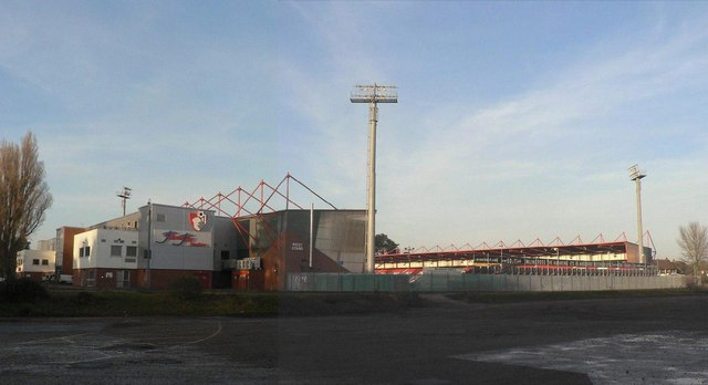 King’s Park: Fitness First Stadium The home of AFC Bournemouth, traditionally Dean Court but renamed after its sponsors following a facelift a few years ago.